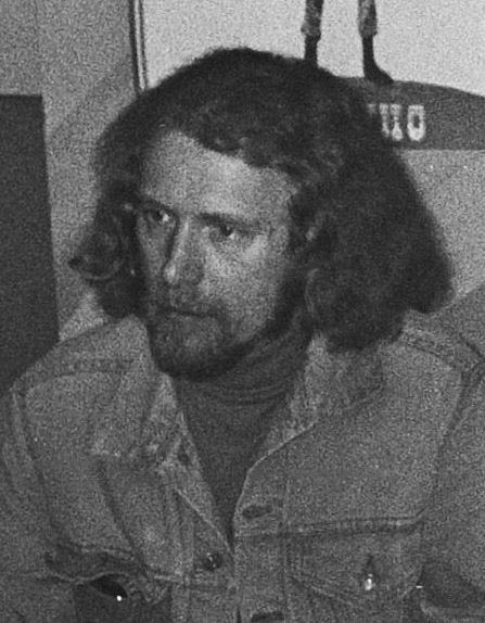 Flying Burrito Bros giving a press conference in the Birdsclub, Amsterdam (NL), 23 Nov. 1970. From left to right: Sneaky Pete Kleinow, Rick Roberts, Chris Hillman, Michael Clarke, Bernie Leadon